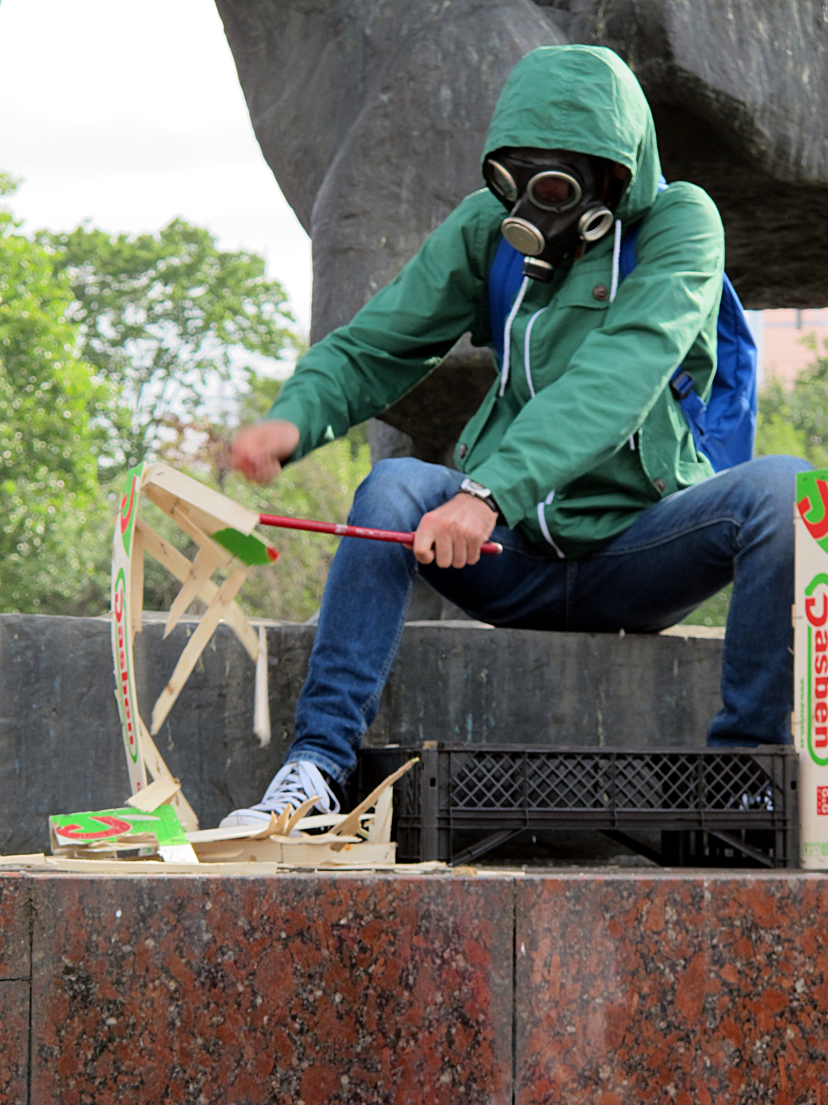 The rally-concert "For Free Internet" in Moscow July 28, 2013.